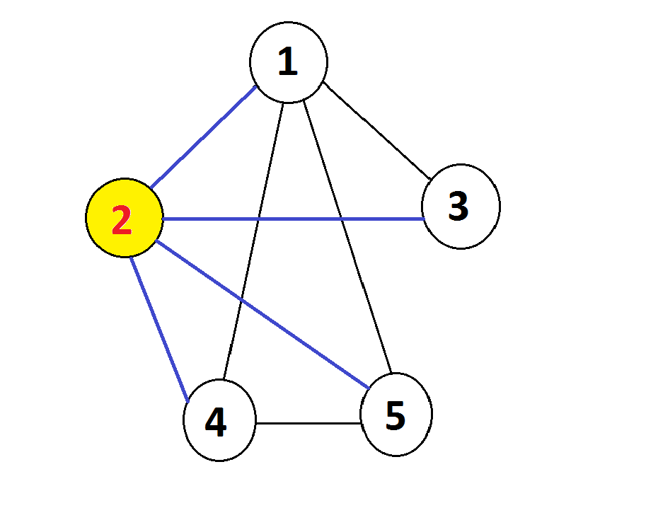 Duyet_Dinh2